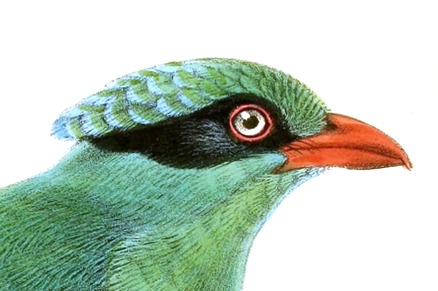 Head of a Bornean Green Magpie (Cissa jefferyi), detail of a drawing by John Gerrard Keulemans.